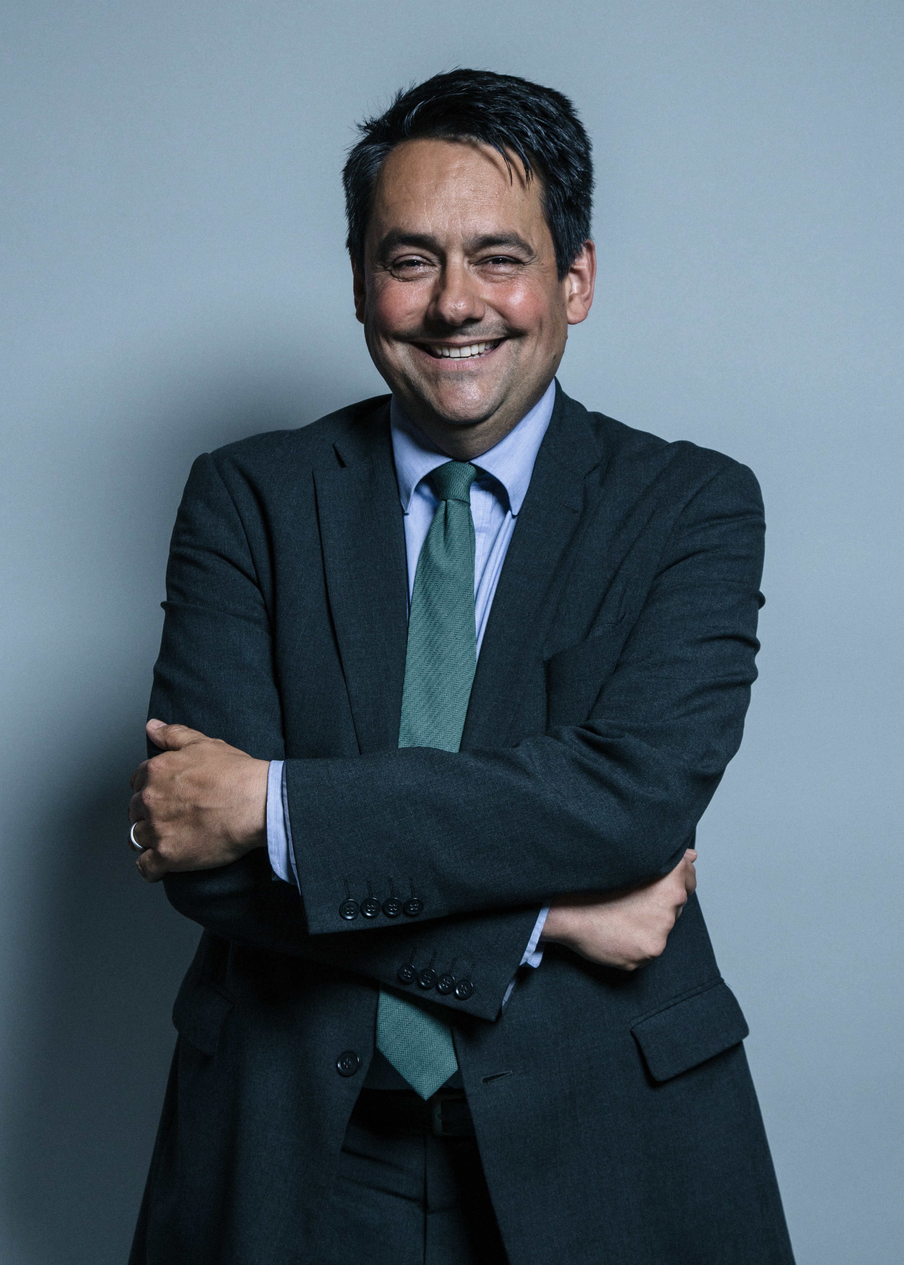 Official portrait of Stephen Twigg